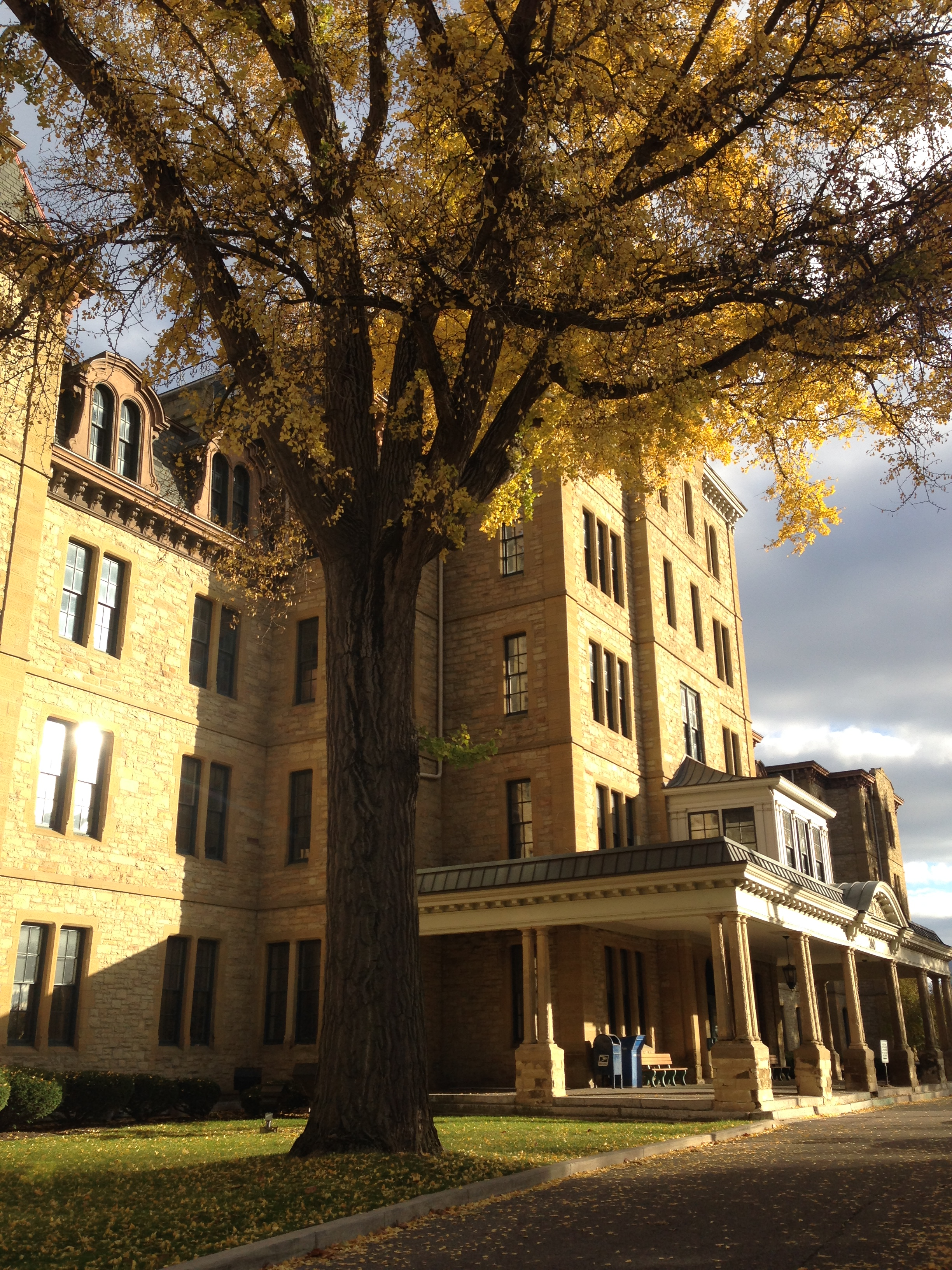 Columbus Public Health Building